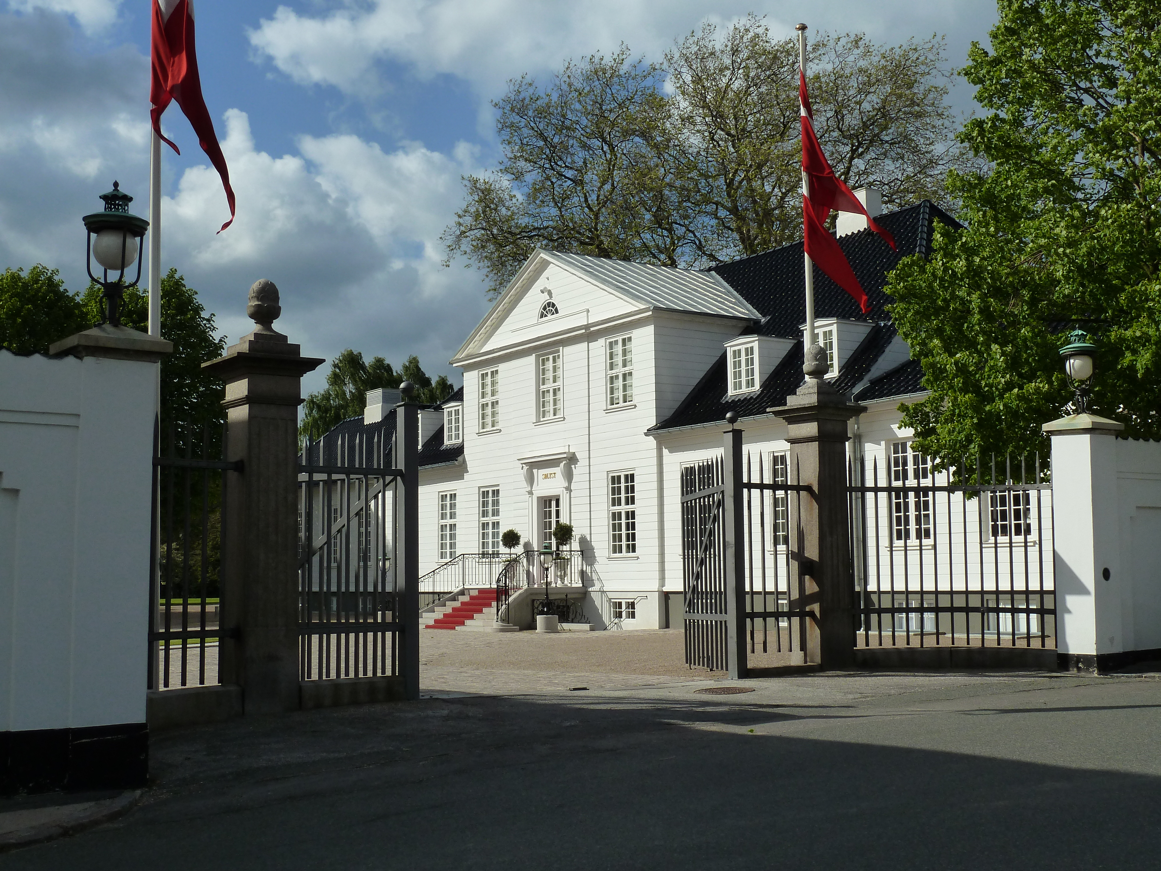 Sølyst in the Klampenborg suburb of Copenhagen, Denmark. Originally a country house, now the home of the Royal Copenhagen Shooting Society